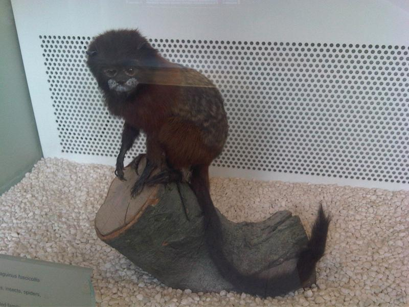 Taxidermied brown-mantled tamarin or saddleback tamarin (Saguinus fuscicollis) at the Natural History Museum in London.